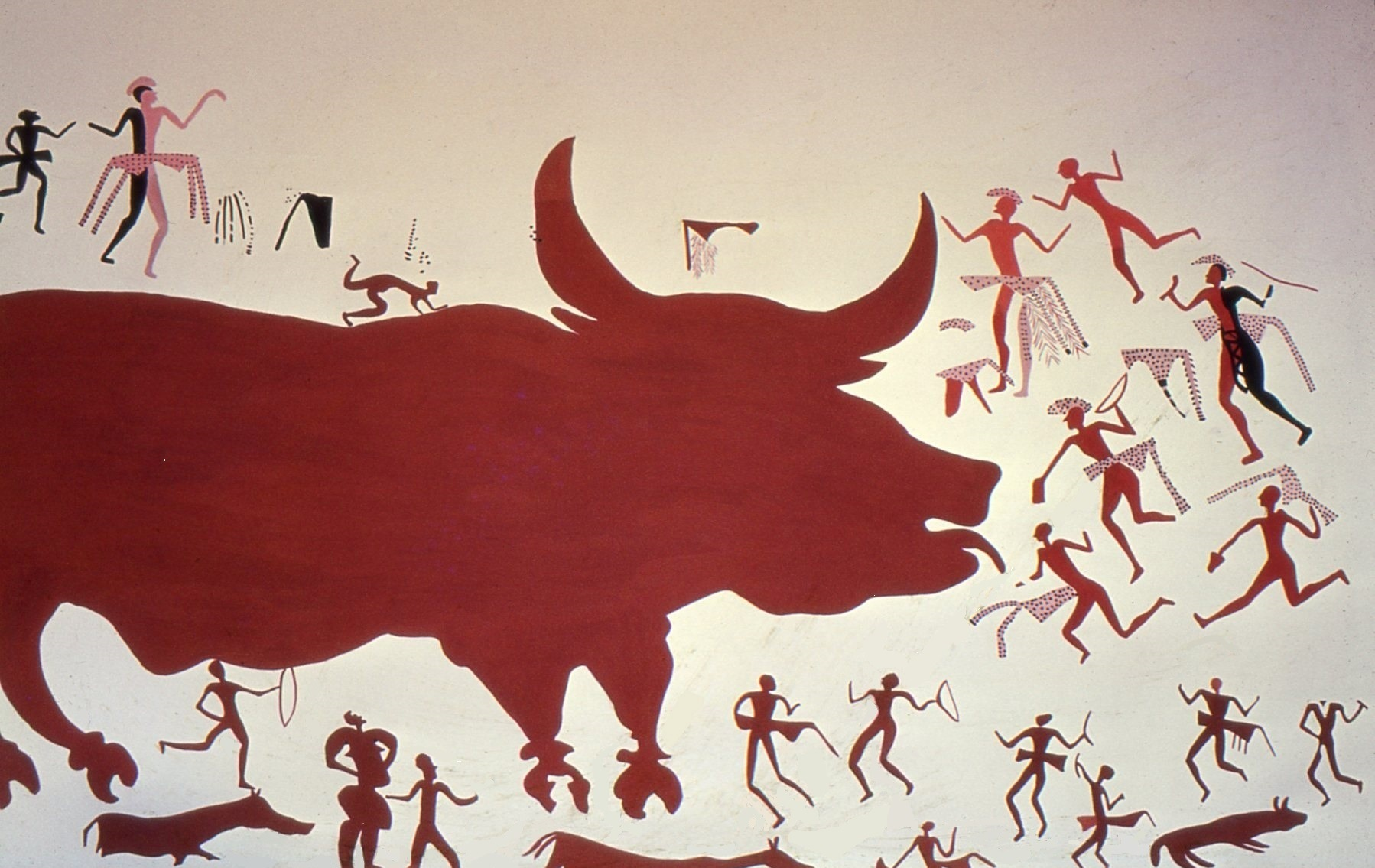 Reconstruction of the aurochs hunting scene from the mural.